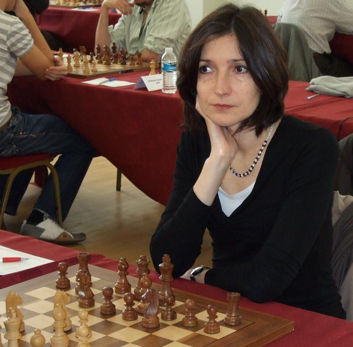 IM (& WGM) Ketevan Arakhamia-Grant - Round 6 of 4th EU Individual Open Ch., Liverpool World Museum, William Brown Street